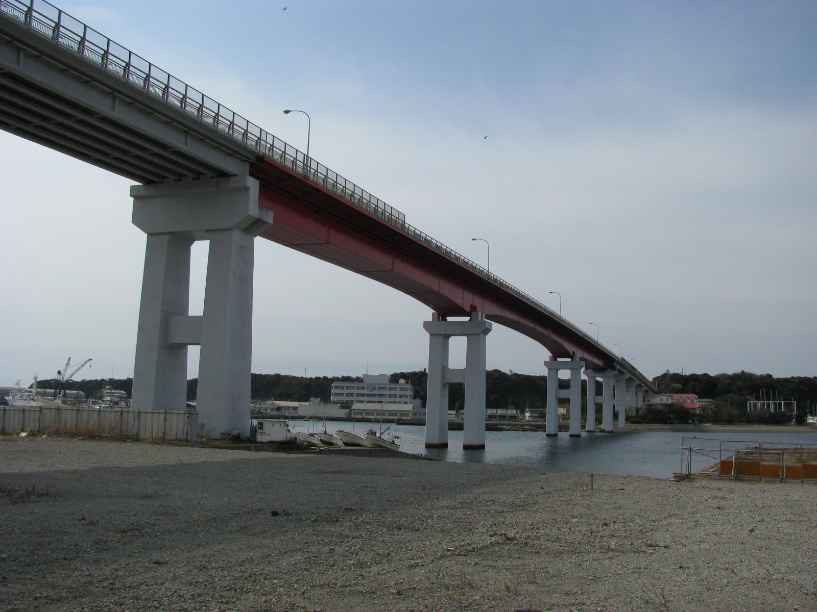 This bridge is Jyogasima-ohashi (Jyogasima big bridge) in Miura, Kanagawa, Japan.